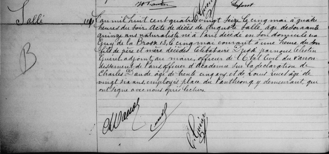 Auguste Sallé (1820-1896) death entry Paris (5. Arrondissement)